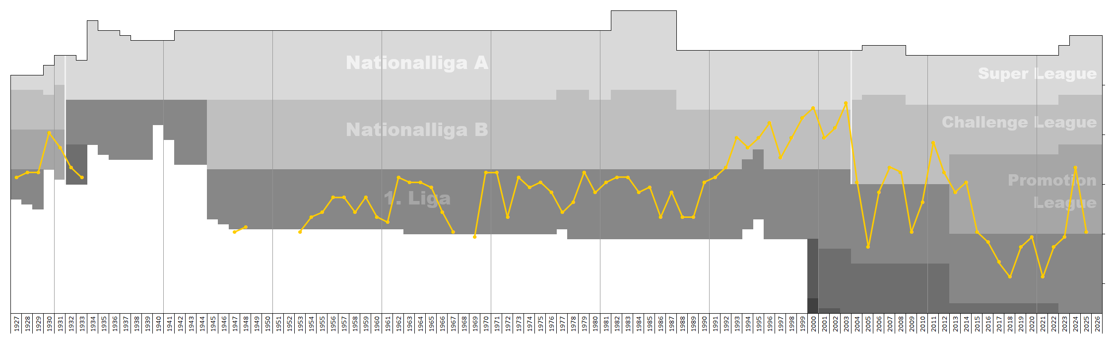 Chart of end-season table positions for SR Delemont in the Swiss football league system. Data source: RSSSF